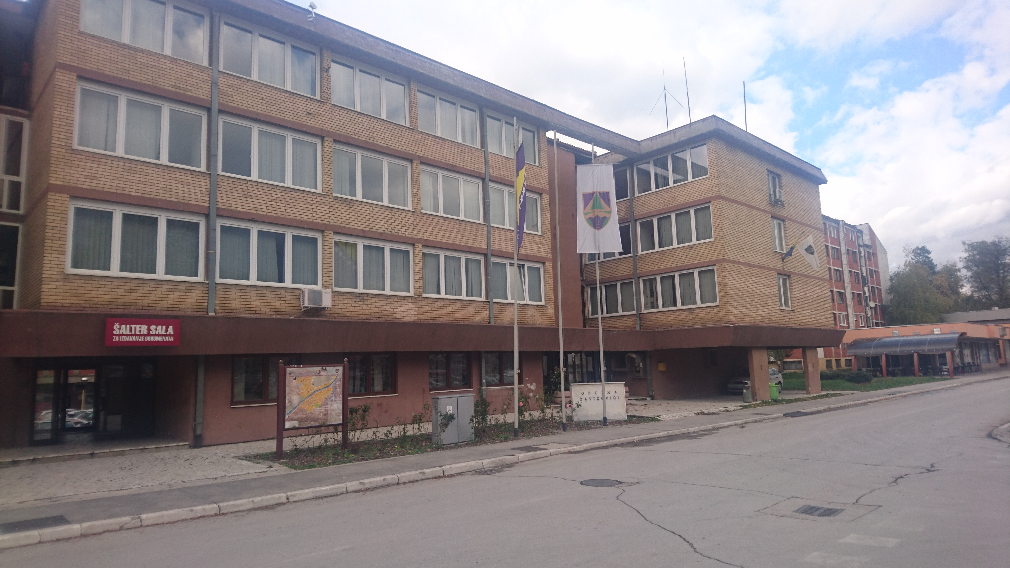 The municipality hall of Zavidovići, Bosnia and Herzegovina